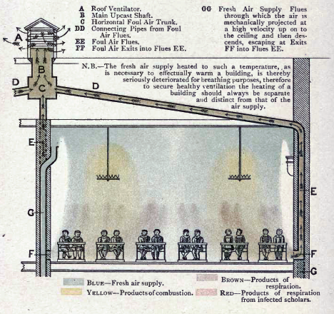 MECHANICAL VENTILATION ON THE DOWNDRAUGHT SYSTEM, BY IMPULSION, OR THE 'PLENUM' PRINCIPLE, APPLIED TO SCHOOLROOMS. A Roof Ventilator. B Main Upcast Shaft. C Horizontal Foul Air Trunk. DD Connecting Pipes from Foul Air Flues. EE Foul Air Flues. FF Foul Air Exits into Flues EE. GG Fresh Air Supply Flues through which the air is mechanically projected at a high velocity up on to the ceiling and then descends, escaping at Exits FF into Flues EE. N.B. The fresh air supply heated to such a temperature, as is necessary to effectually warm a building, is thereby seriously deteriorated for breathing purposes, therefore to secure healthy ventilation the heating of a building should always be separate and distinct from that of the air supply. BLUE Fresh air supply. 蓝色：新风供给。 YELLOW Products of combustion. BROWN Products of respiration. RED Products of respiration from infected scholars.